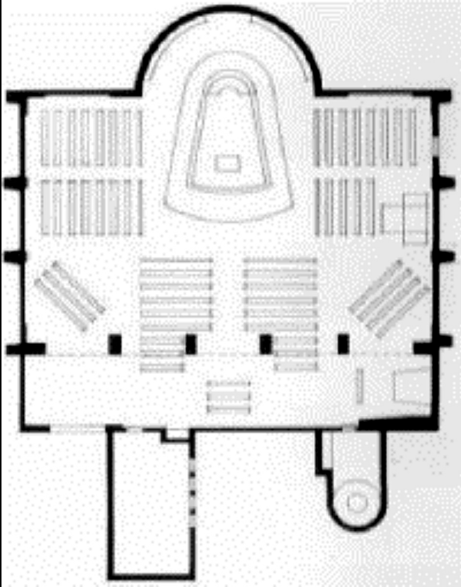 St. Laurentius in Munich-Gern, Bavaria: Groundplan